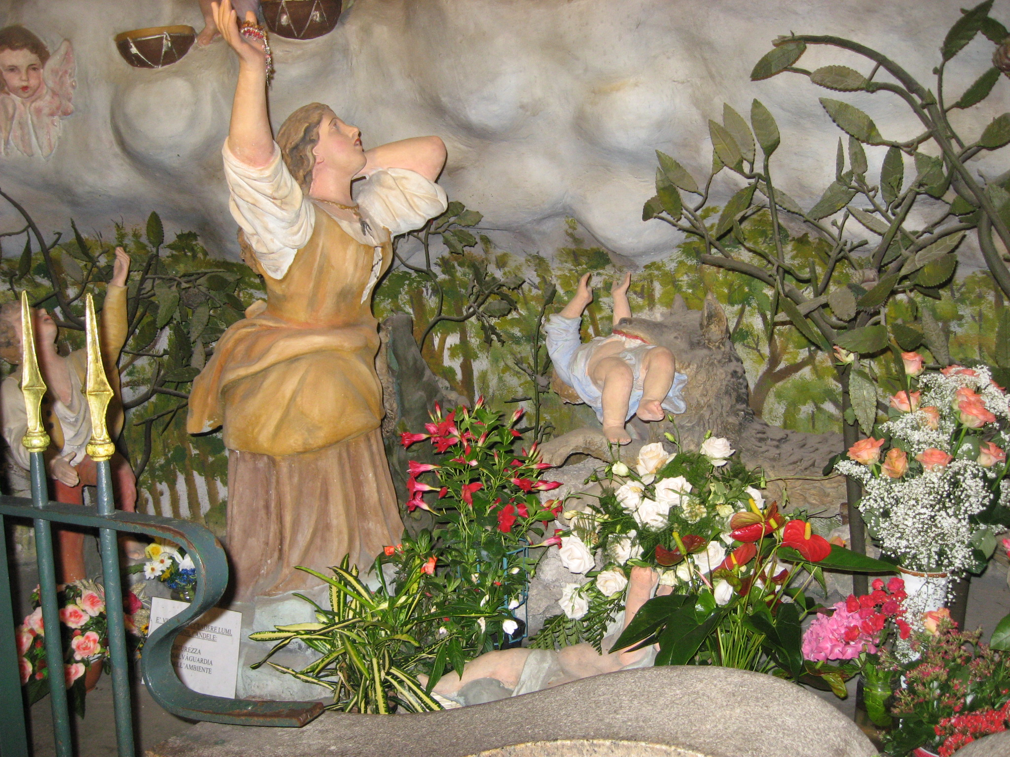 Miracle of the wolf. Santuario della Madonna del bosco in Imbersago, Italy